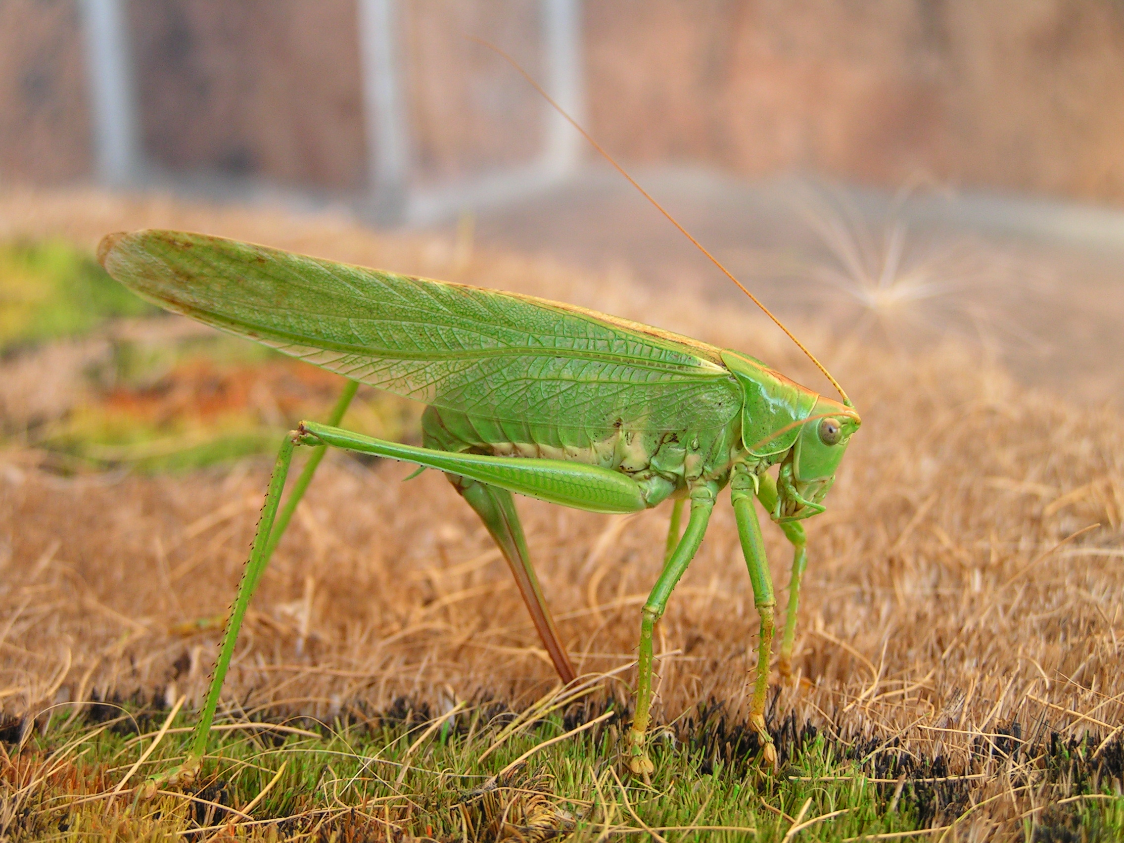 Tettigonia viridissima, female, in garden